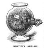 The century illustrated monthly magazine 1886